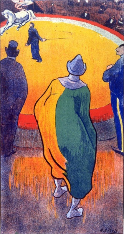 "Au cirque" published in L'estampe originale, 1893, Colour lithograph